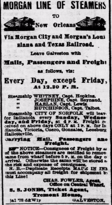 Advertisement placed in the Galveston Daily News 11 May 1878. Morgan Line (steamboats).